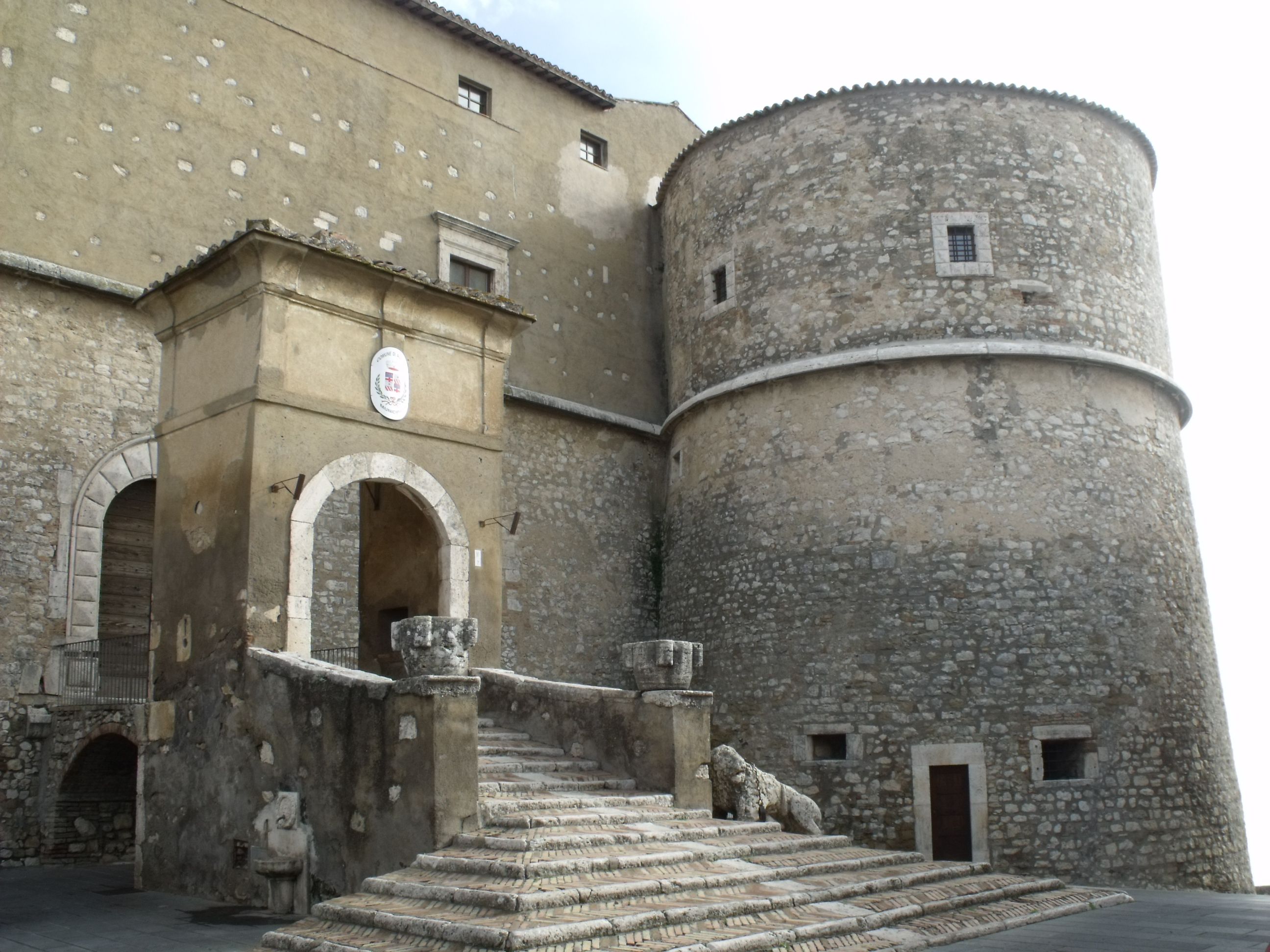 Castello di Alviano, Province of Terni, Umbria, Italy